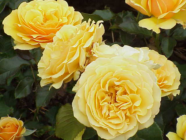 Species: Rosa sp. Family: Rosaceae Cultivar: Amber Queen, Harkness 1984 Image No. 31